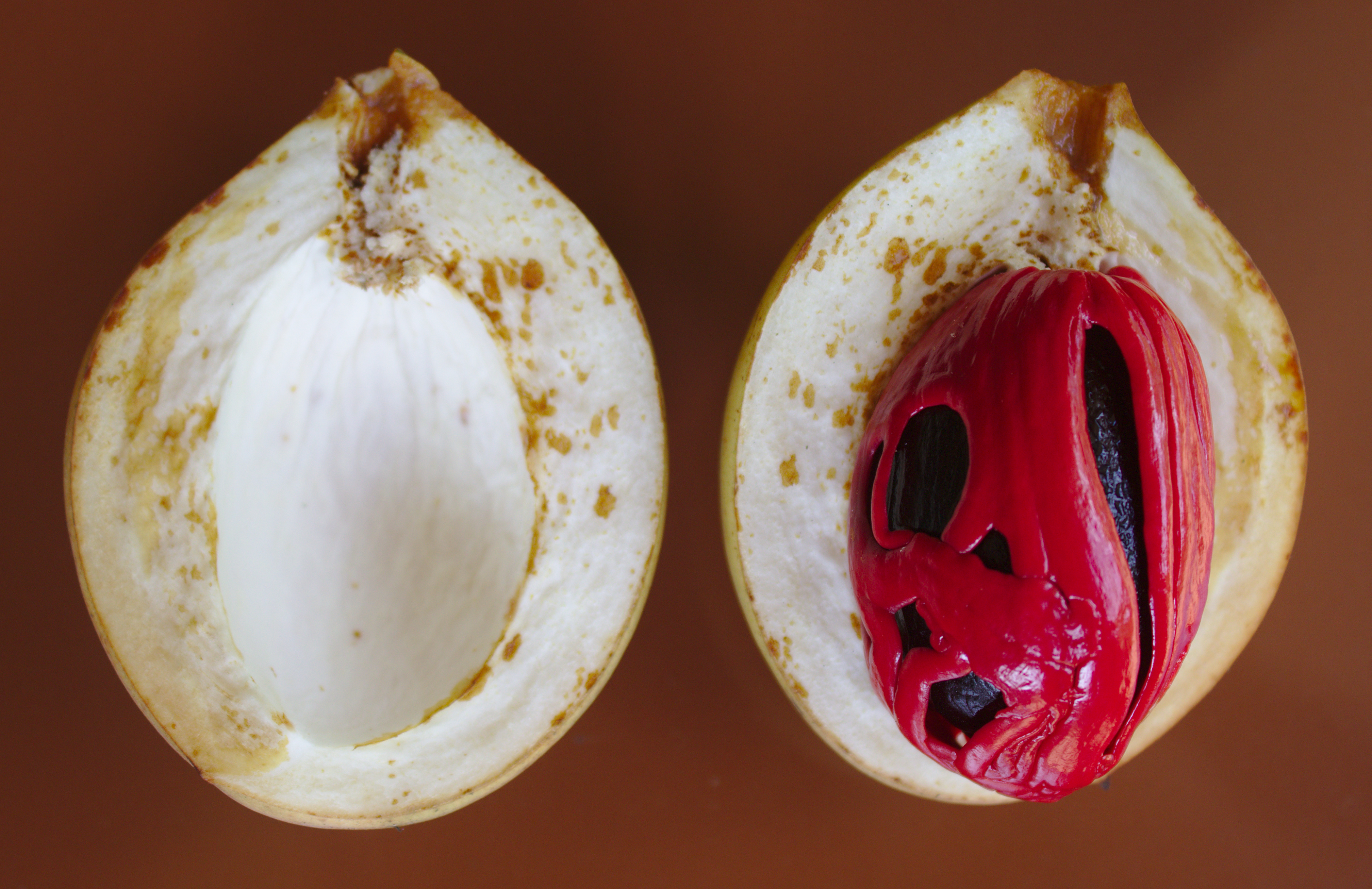 A nutmeg fruit split open to show the seed with the surrounding aril (also known as mace).